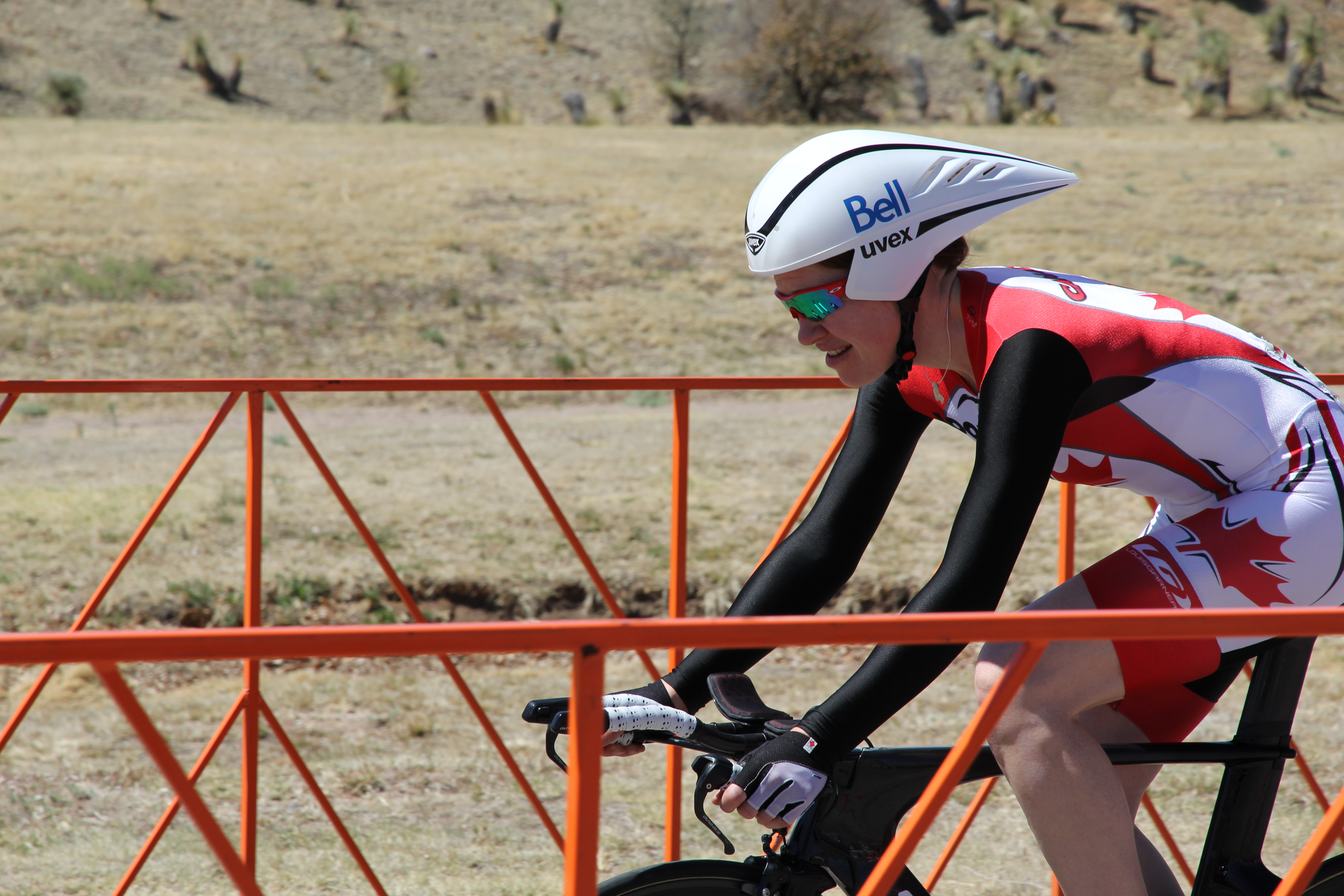 Clara Hughes